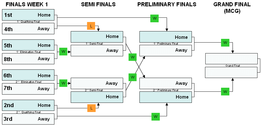 AFL Finals system